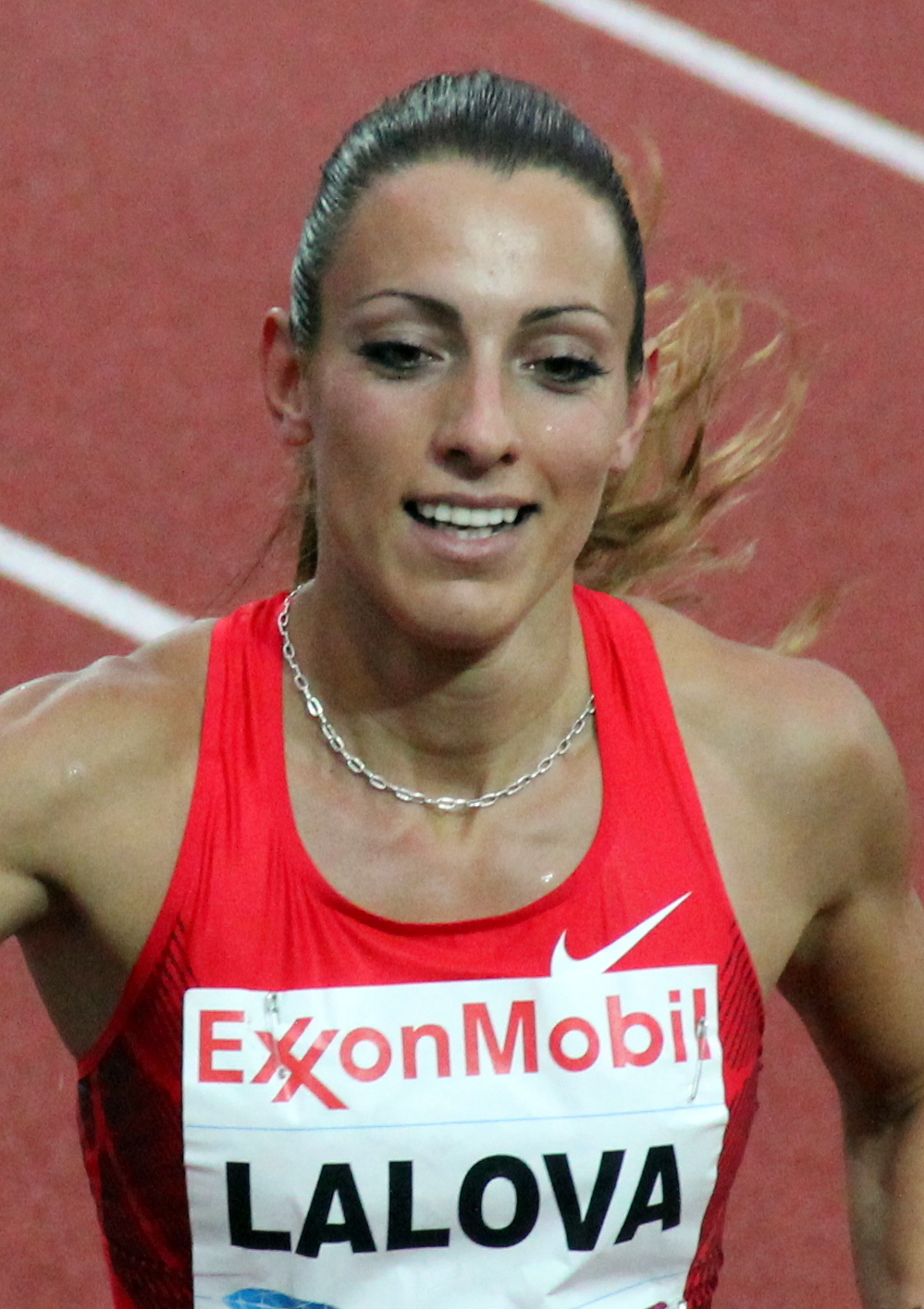 Ivet Lalova at the 2011 Bislett Games